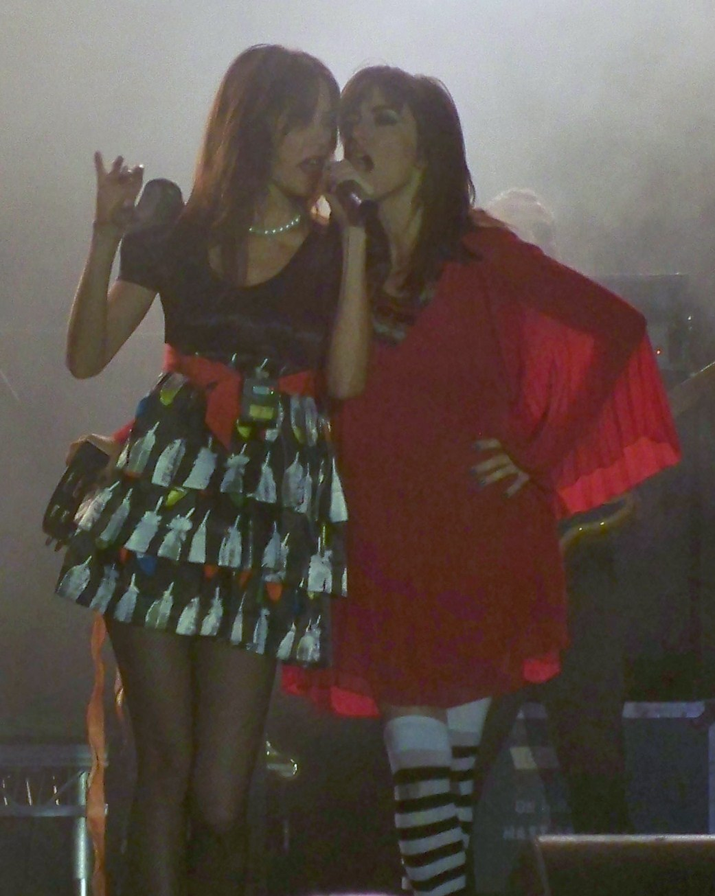 Nouvelle Vague performing their set at Guilfest 2012.